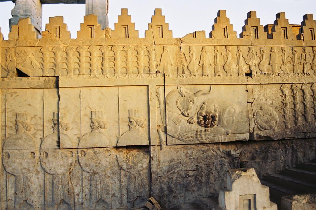 Low-relief of Persian guards, on the stair of Darius' palace in Persepolis, Iran